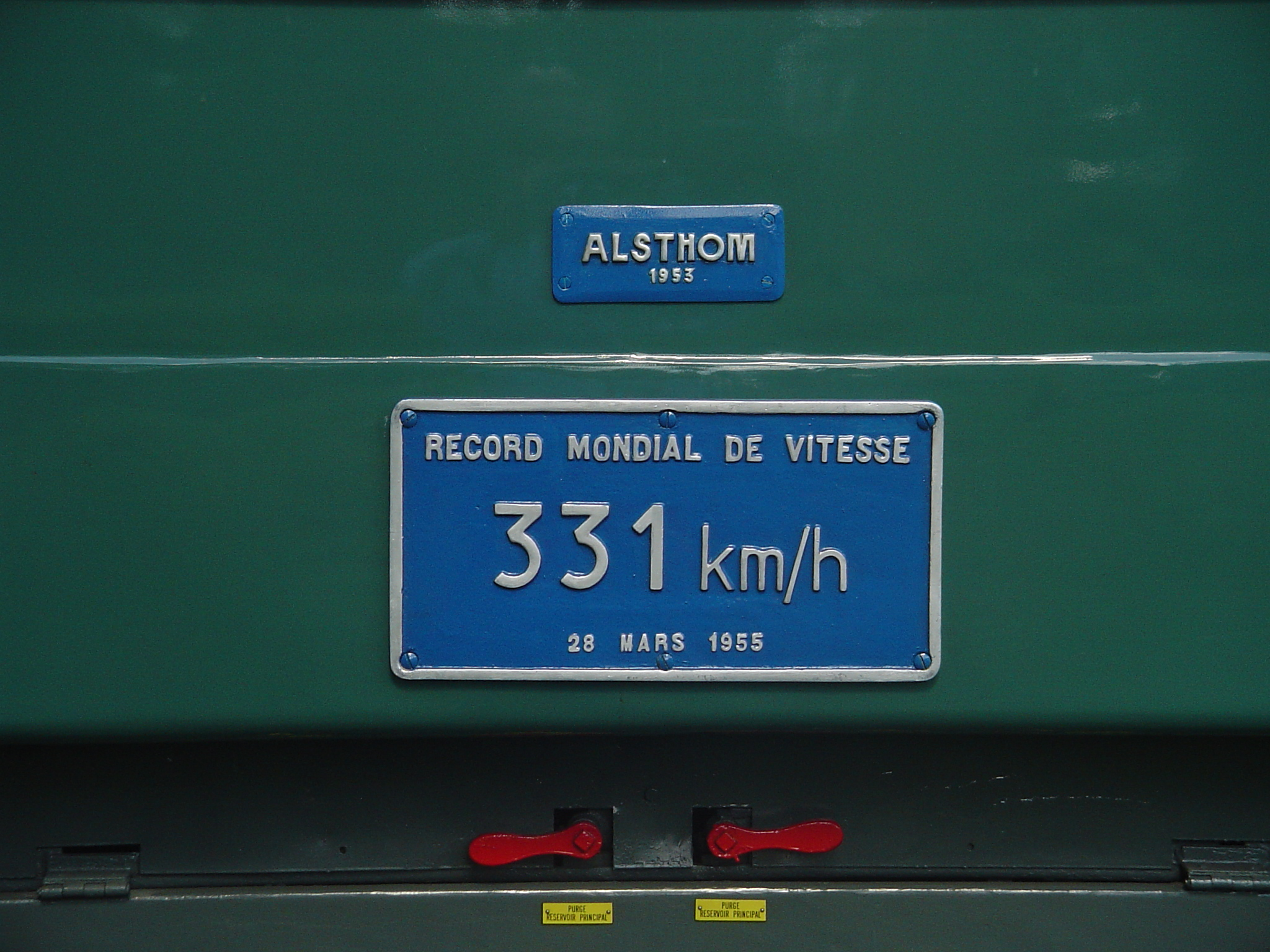 badge on electric BB9004 loco owned by french railways SNCF, shot taken at Deutsche Bahn workshop in Munich-Freimann, Germany